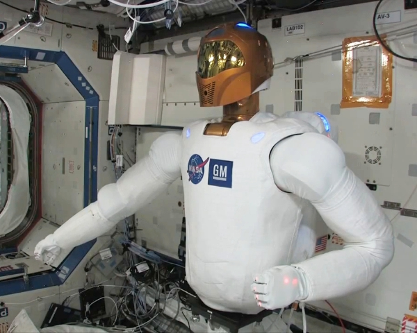 The first movement of Robonaut 2 on the International Space Station during one of the initial checkout tests with Astronaut Mike Fossum. Recorded on October 13th, 2011. Screen captured from HD video.